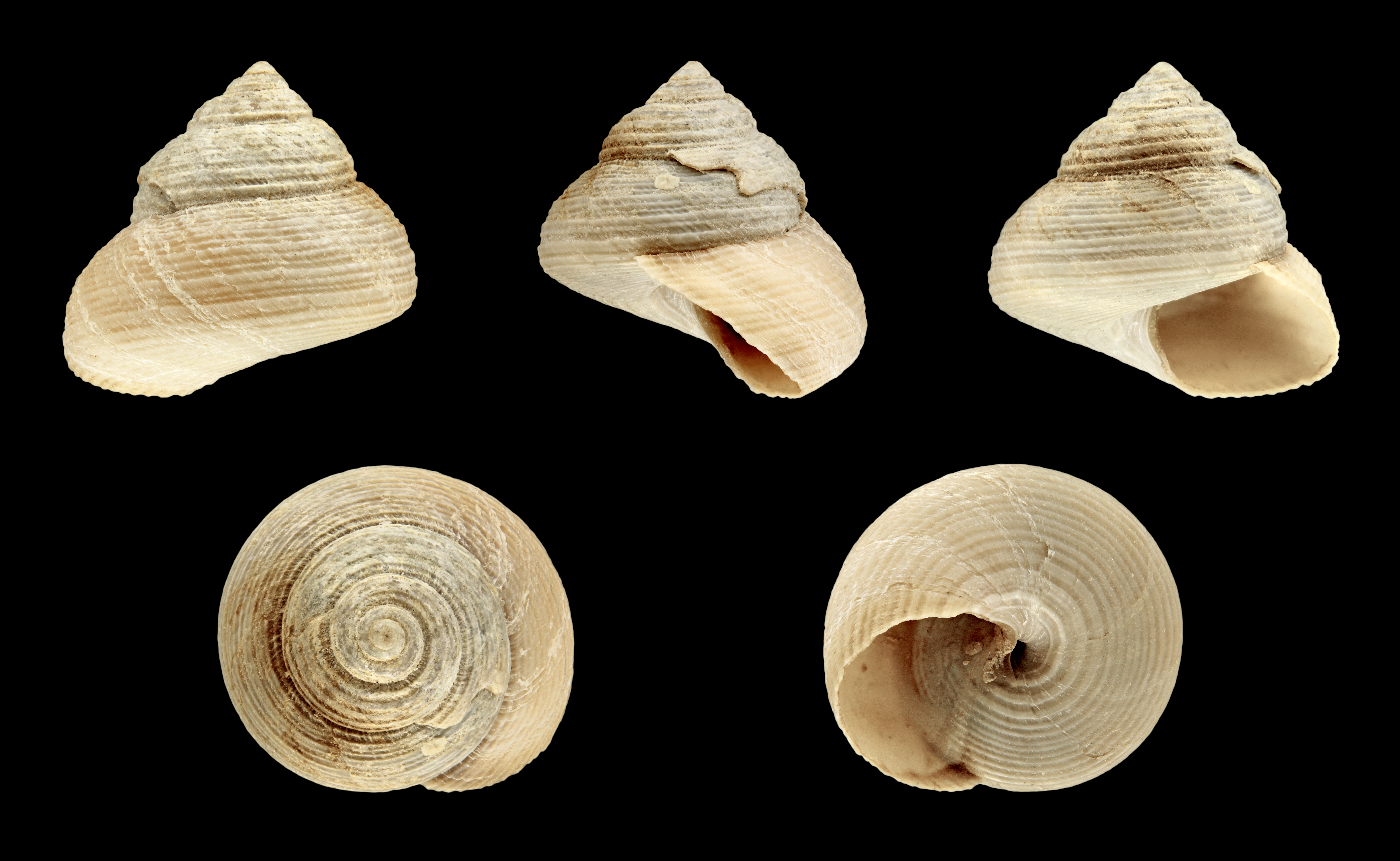 Puppet Margarite; Diameter 1.2 cm; Originating from Prince Rupert, British Columbia, Canada; Shell of own collection, therefore not geocoded.